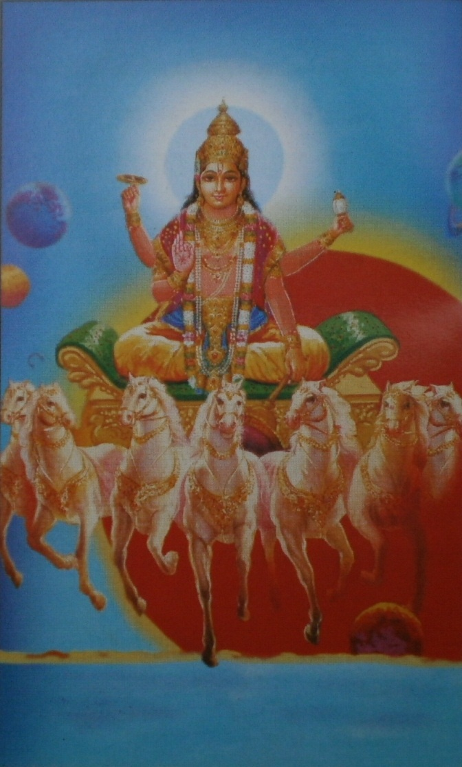 Surya (Devanagari: सूर्य Sūrya, "the Supreme Light";[2] Burmese: သူရိယ, [θùɹḭja̰]; Malay: Suria; Tamil: சூரியன்; Thai: พระอาทิตย์ Suraya or Phra Athit is the chief solar deity in Hinduism, one of the Adityas, son of Kasyapa and one of his wives, Aditi;[3] of Indra; or of Dyaus Pitar (depending by the version). The term Surya also refers to the Sun, in general. Surya has hair and arms of gold. He is said to drive through the heaven in his triumphal chariot harnessed by seven horses or one horse with seven heads,[1] which represent the seven colours of the rainbow or the seven chakras. He presides over Sunday. In Hindu religious literature, Surya is notably mentioned as the visible form of God that one can see every day. Furthermore, Shaivites and Vaishnavas often regard Surya as an aspect of Shiva and Vishnu, respectively. For example, the sun is called Surya Narayana by Vaishnavas. In Shaivite theology, Surya is said to be one of eight forms of Shiva, named the Astamurti. His other names include Vishnu, Vivasvān (Sanskrit root: Vivasvat, विवस्वत्) Ravi (lit. "the Fire Bird"[2]), Aditya (lit. the son of Aditi),[4] Pusha (the best Purifier), Divakar (the maker of the day), Savita (the vivifier), Arka अर्क (the ray), Mitra (friend),[4] Bhanu (light), Bhaskar (maker of Light), and Grahapati (the Lord of Grahas).[5]